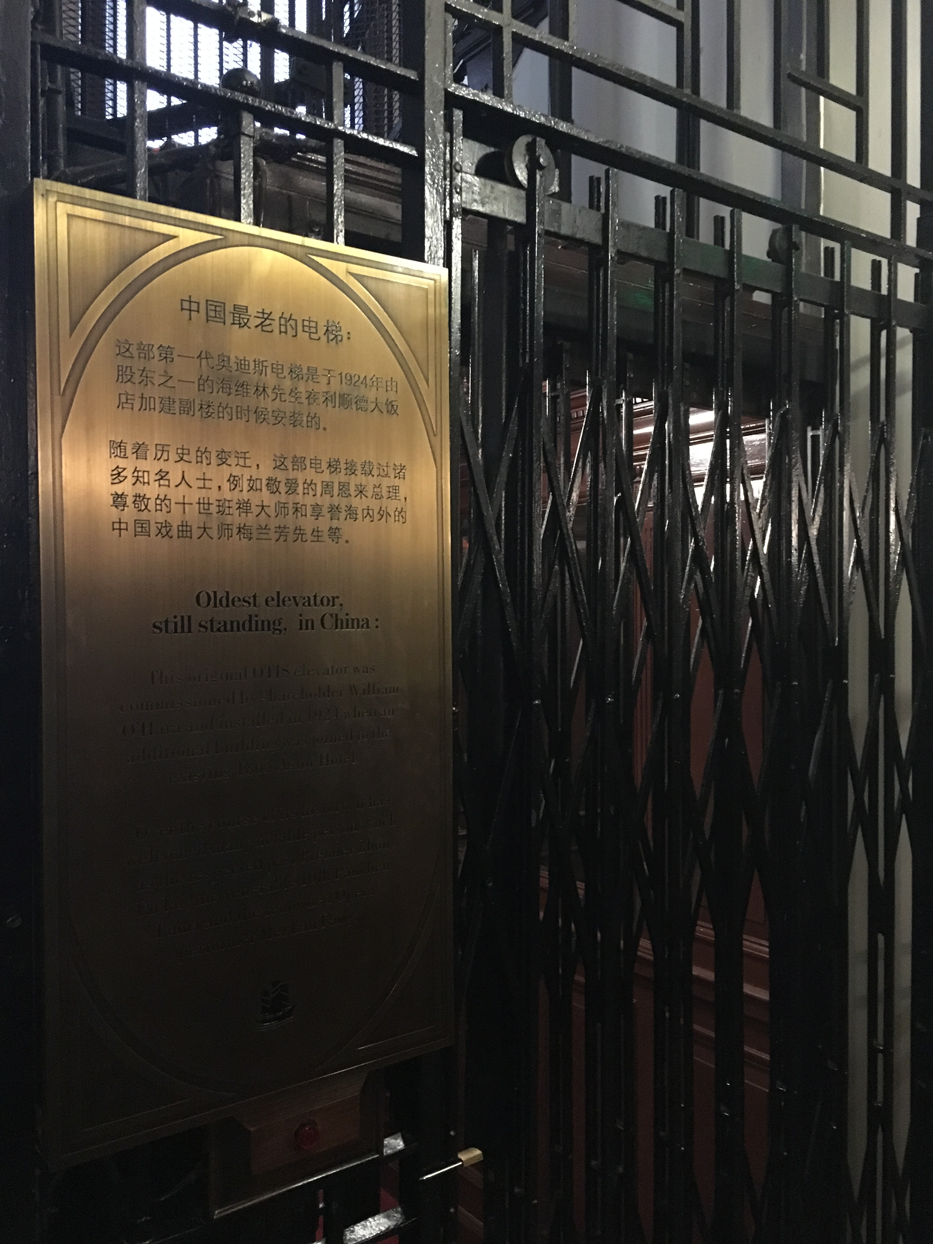 The oldest elevator of China(still running)in Tianjin Astor Hotel